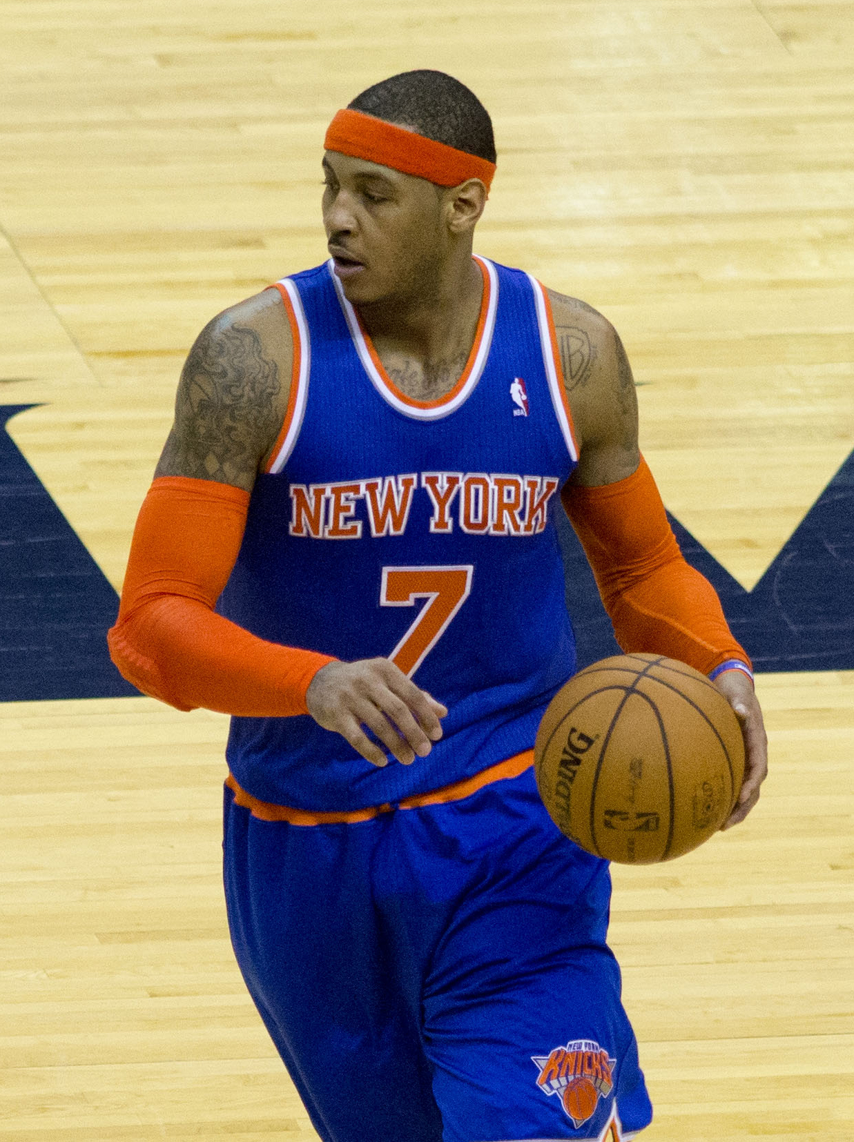 Carmelo Anthony, New York Knicks at Washington Wizards March 1, 2013